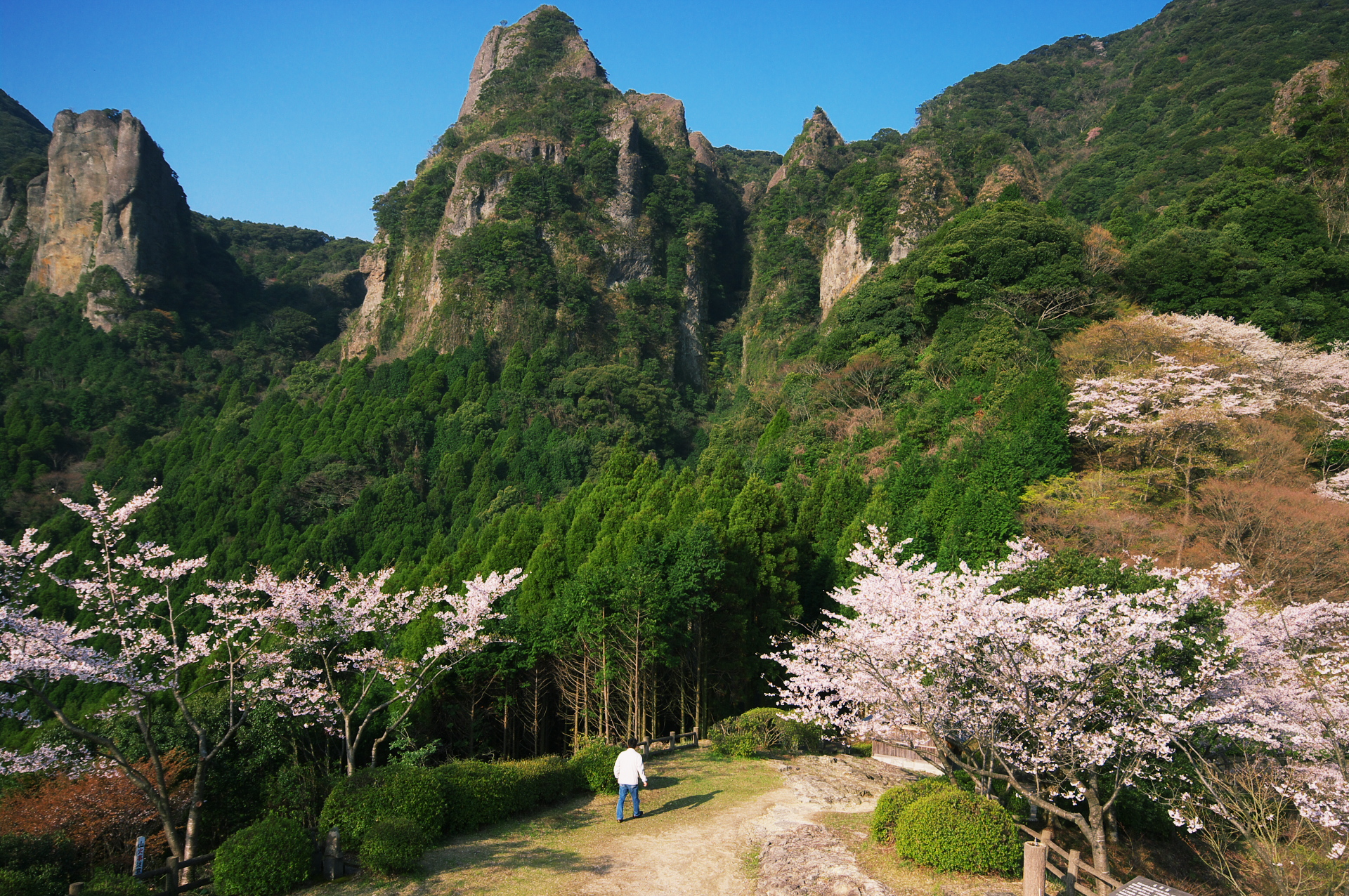 Mount Kurokamiyama from Chimachibo Park in spring.